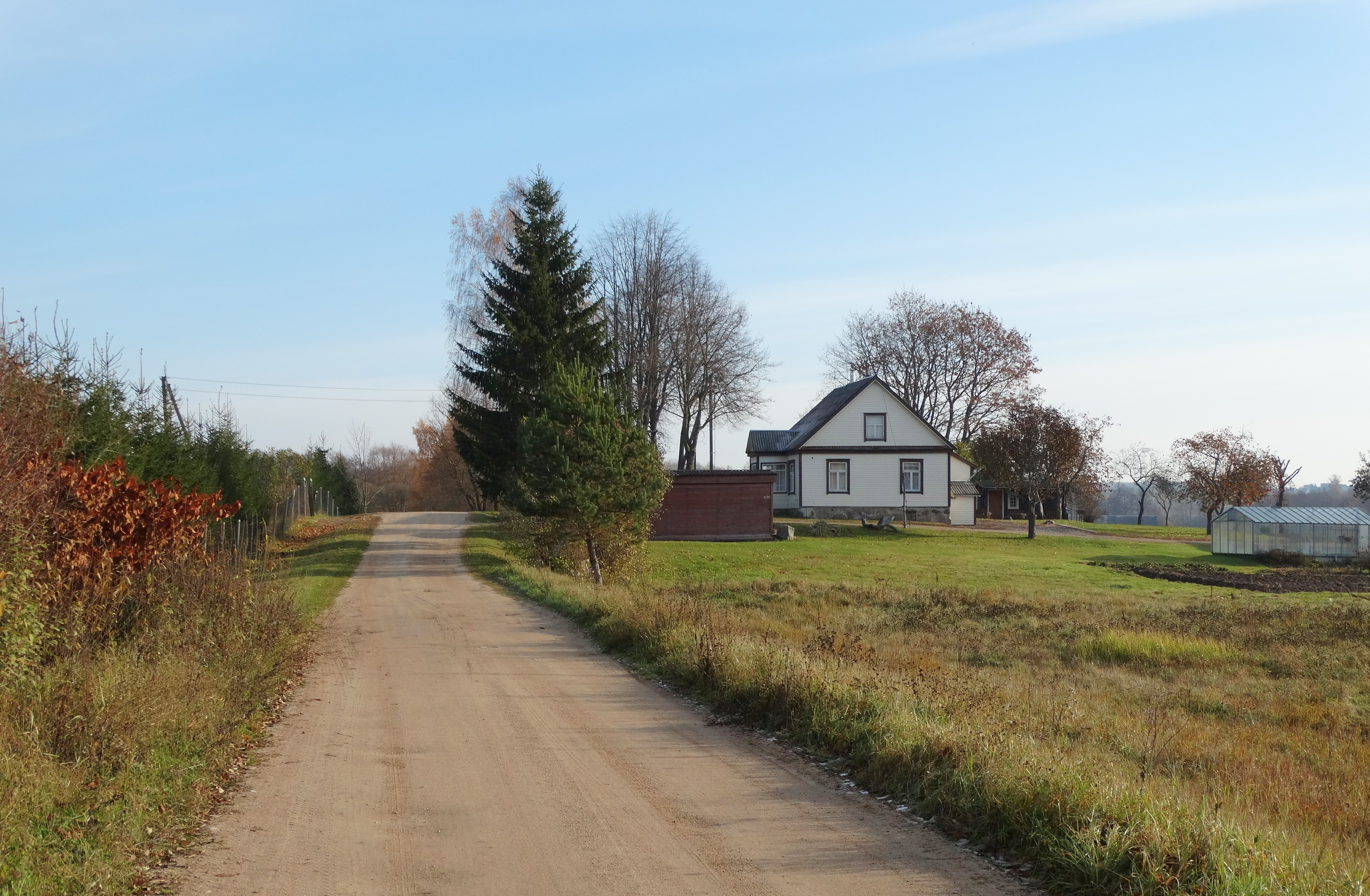 Bajoriškiai, Utena district, Lithuania